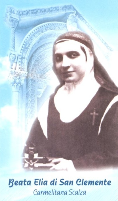 The Blessed Elia of San Clemente